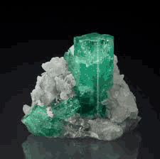 سنگ زمرد نوعی سنگ بریل است که حاوی بریلیم می باشد